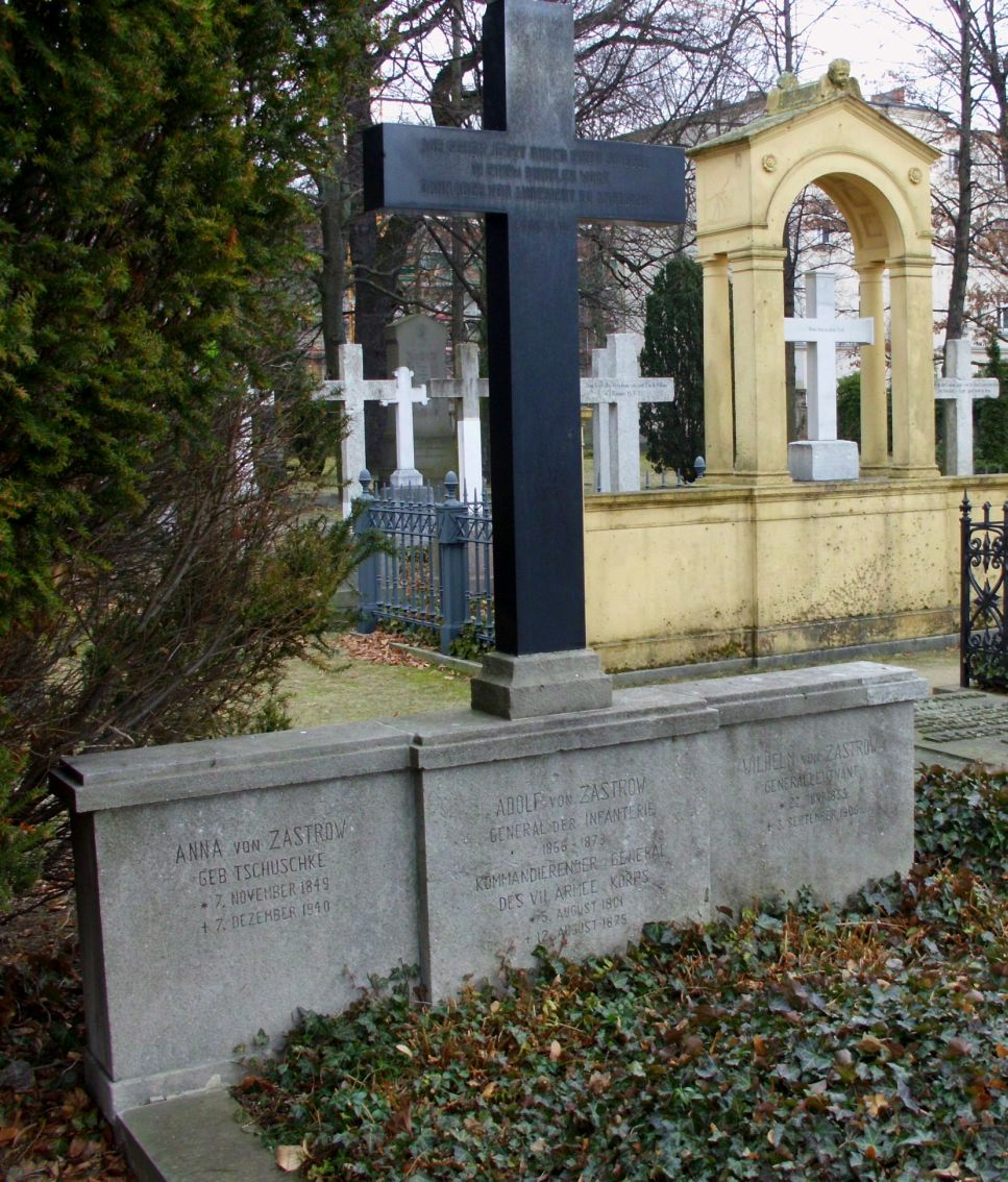 Grave of Adolf, Wilhelm and Anna von Zastrow